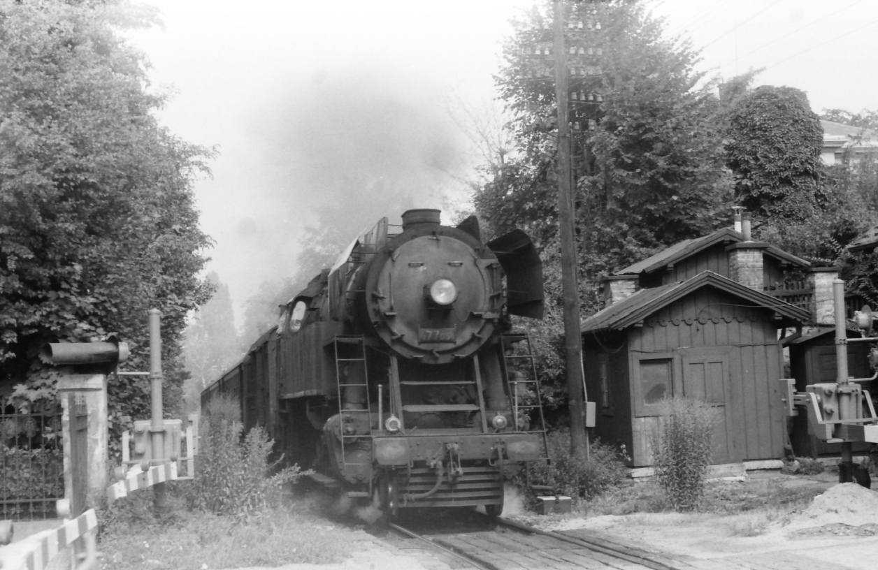 Railway Station Praha-Dejvice crossing-gate site